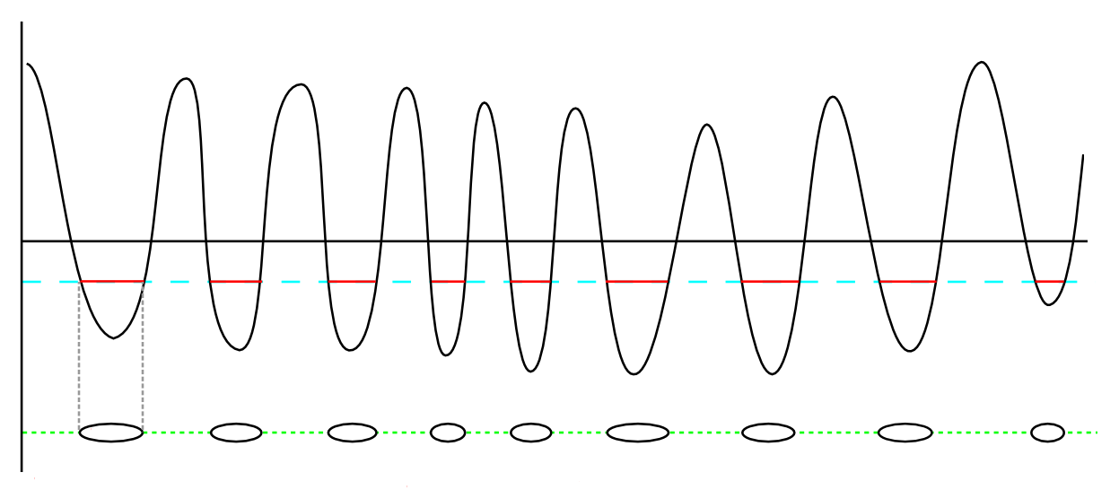 Diagram explaining Laserdisc FM Pulse modulation encoding.